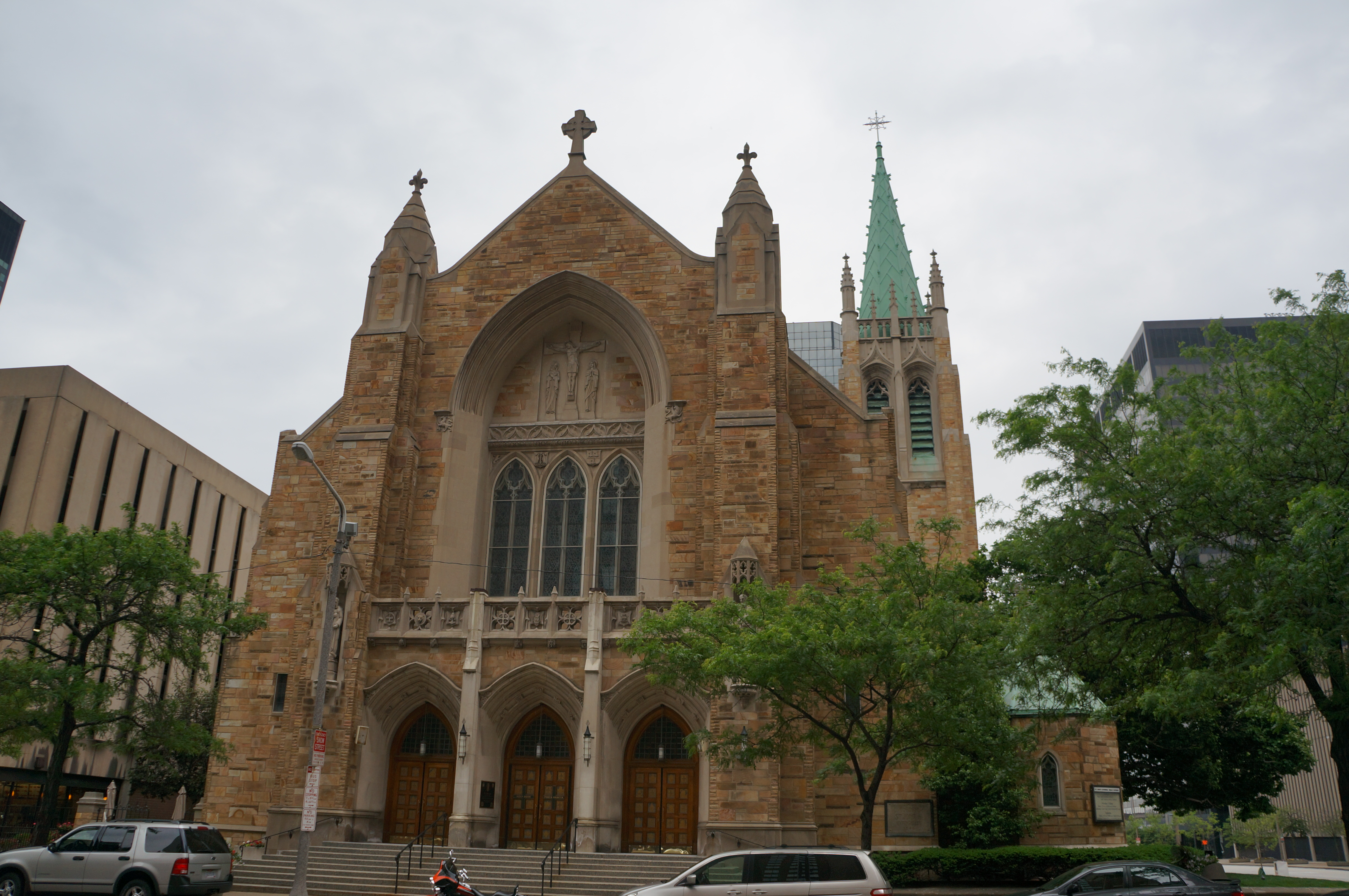 Exterior of the Cathedral of St. John the Evangelist - Cleveland, OH